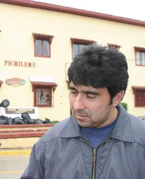 Jorge Vargas in a protest, in Pichilemu.